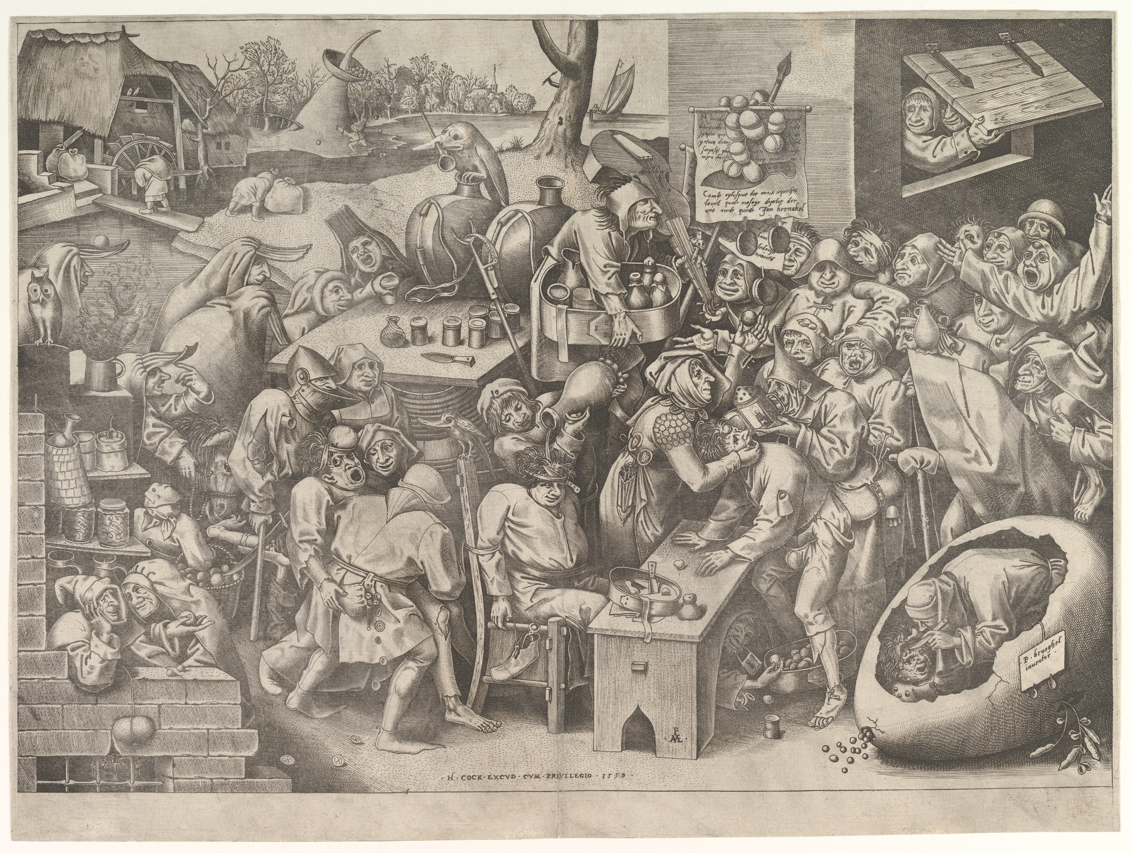 Print; Prints